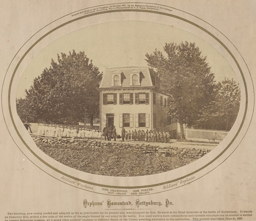 Orphans' homestead, Gettysburg, Pa. The building, now newly roofed and adapted as far as practicable for its present use, was occupied by Gen. Howard as his head quarters at the battle of Gettysburg. It stands on Cemetery Hill, within a few rods of the vertex of the angle formed by our army in the battle. It is used until a more commodious and suitable structure can be erected to shelter its present fatherless inmates, with many other soldiers' orphans in different States of the Union, awaiting admission to the institution / / Photographed by C.J. Tyson, Gettysburg. Note: Photograph shows Gen. Samuel W. Crawford, Gen. Andrew Porter, Gov. John W. Geary, and Gen. Ulysses S. Grant outside the orphanage and flanked by girls on the left and boys on the right.